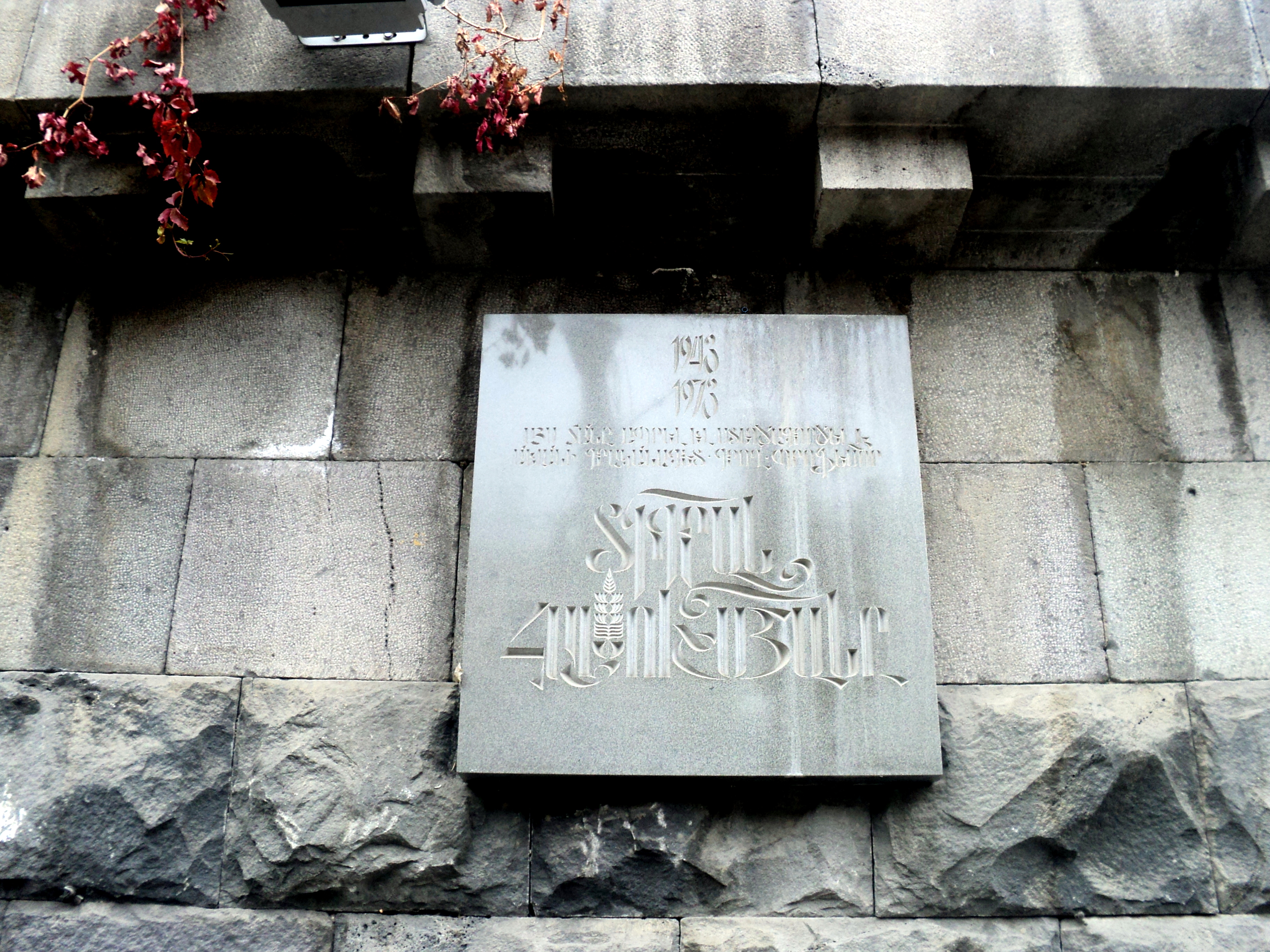 Tigran Hakhumyan's plaque in Yerevan